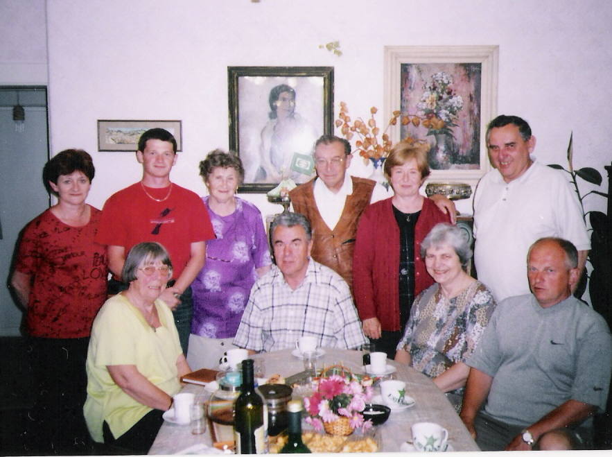 Esperanto club Pardubice 2005